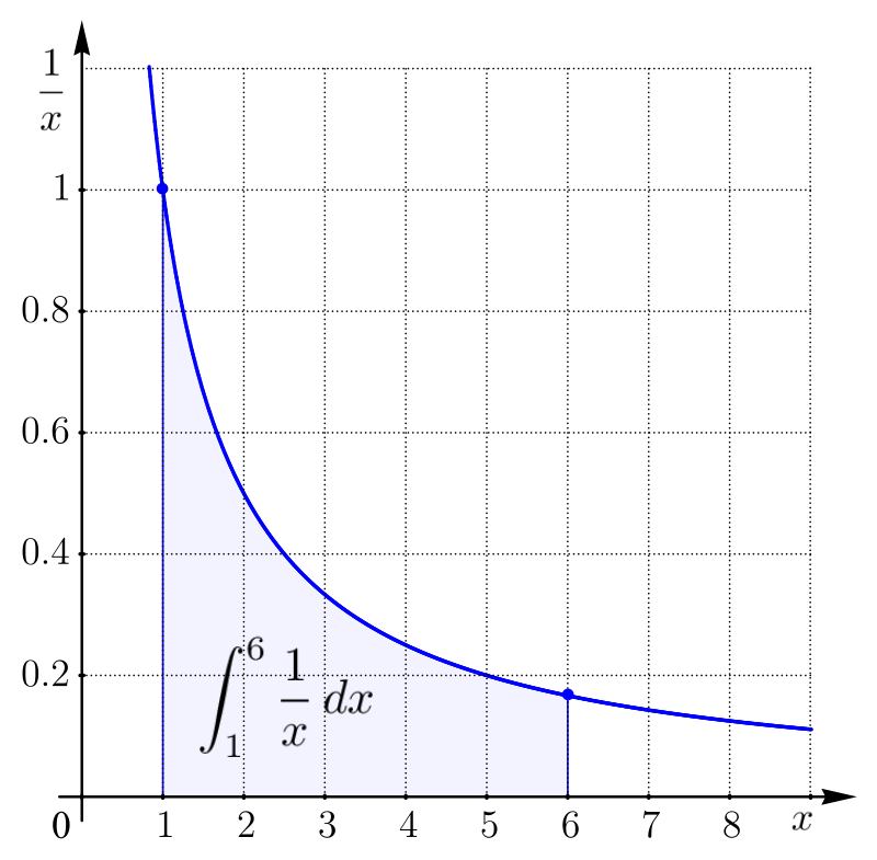 The natural logaritm